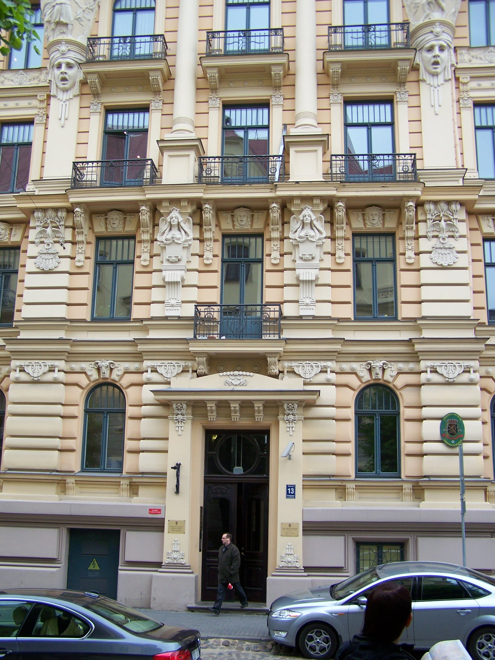 the Irish Embassy in Riga, Latvia